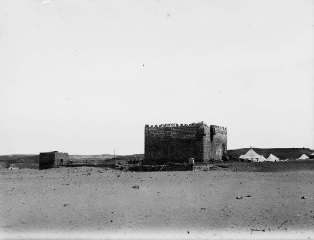 The Ottoman fort of al-Ukhaydir in modern-day Saudi Arabia.